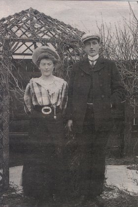 Photograph of Johan Olaf Dahler and Dagmar Ruth in Skagen, January 1909, after Dahler was rescued from the shipwrecked Norwegian brig "Speed".